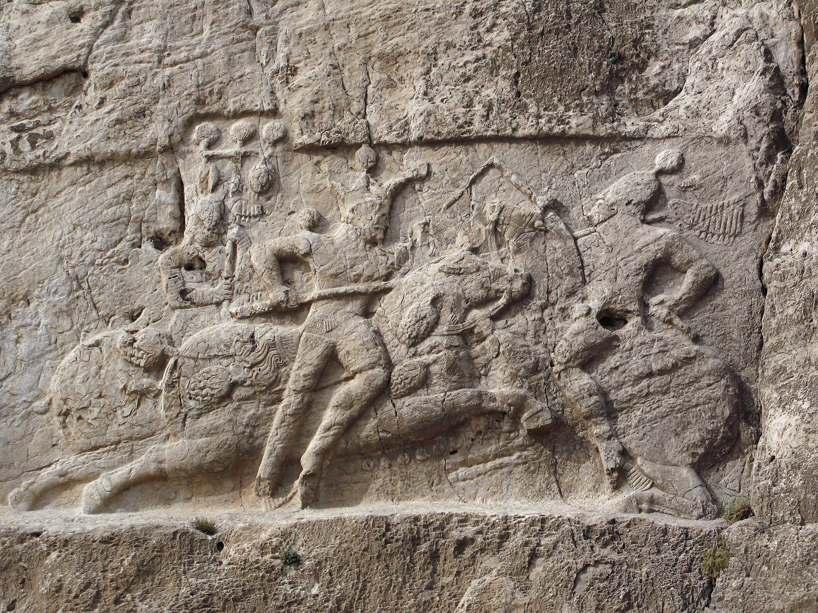 Bas-relief in Naqsh-e rostam